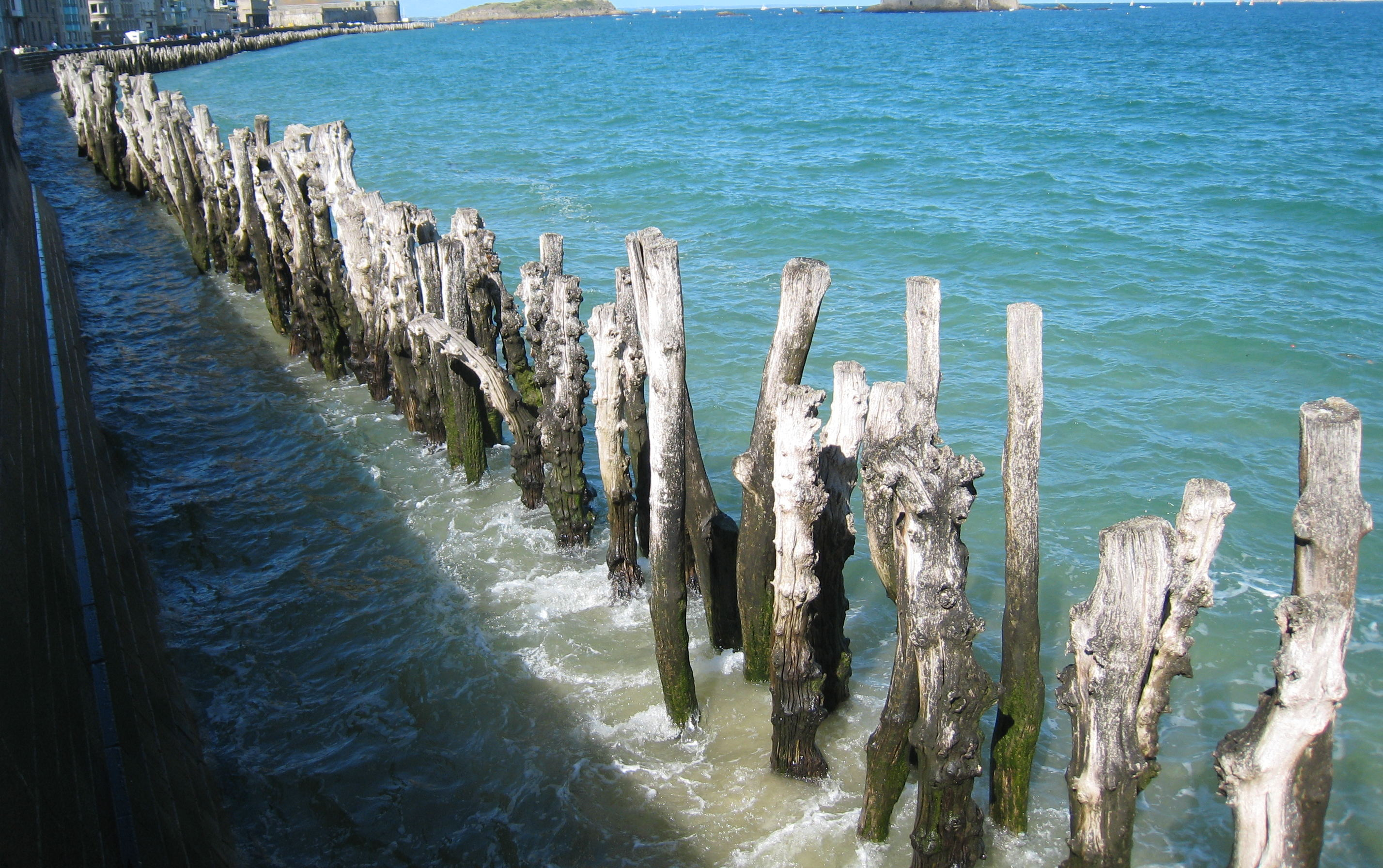 Timber Breakwater Saint Malo France